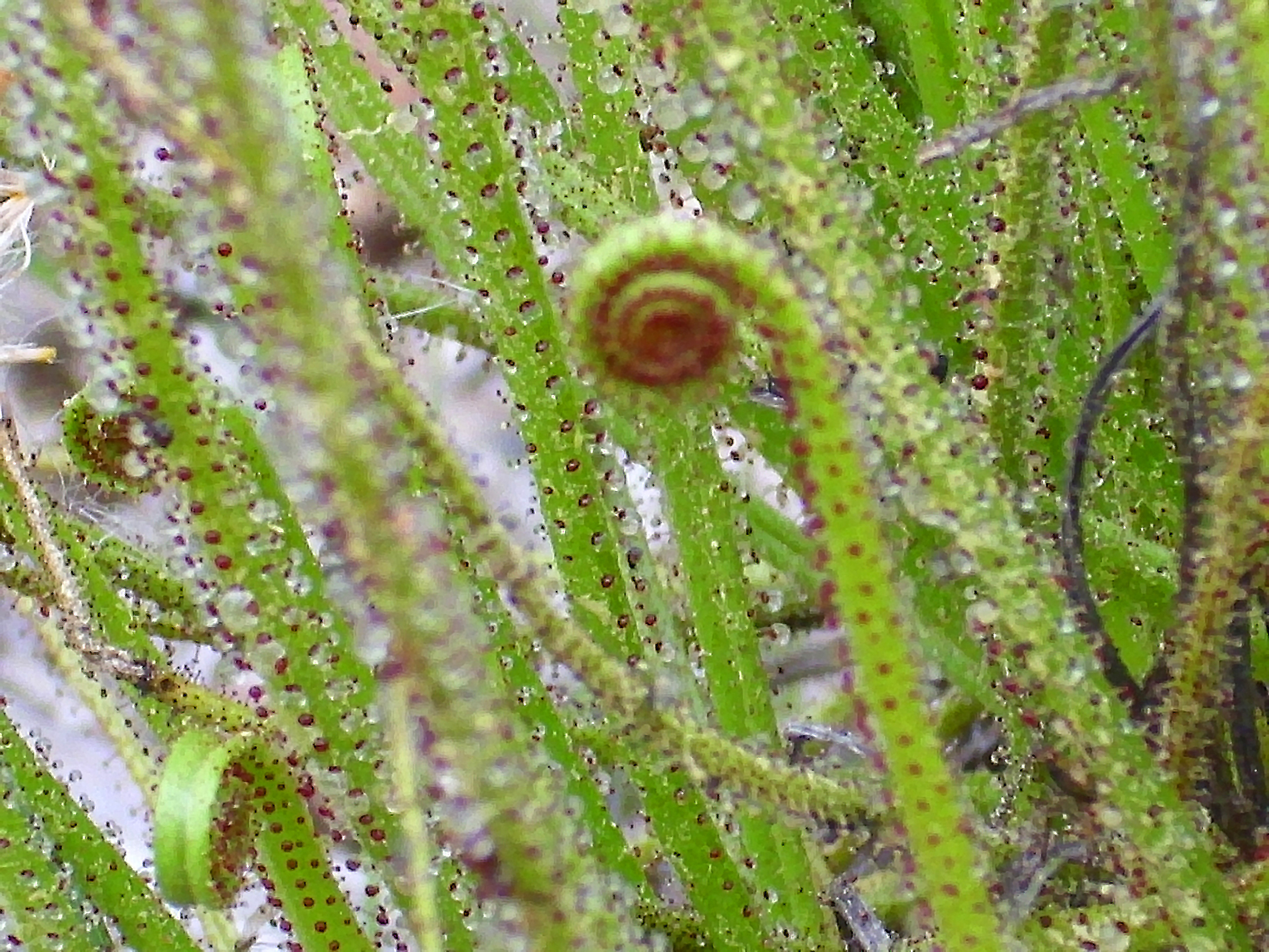 Drosophyllum lusitanicum stems, Sierra Madrona, Spain